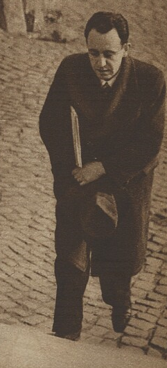 Jaroslav Humberger, Czech journalist and writer, 1902-1945